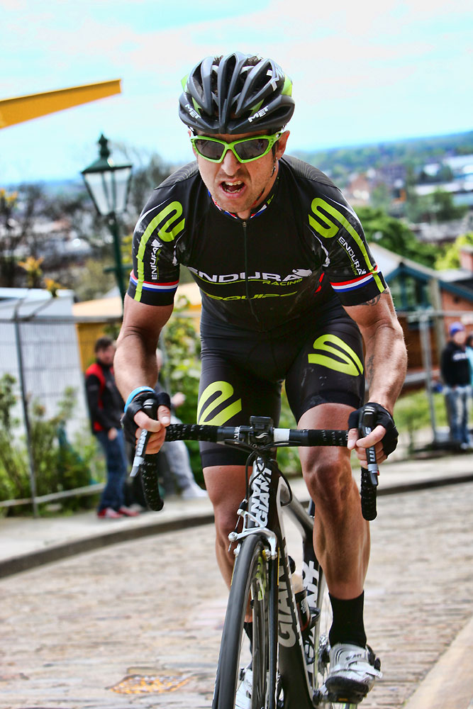 Russell Downing (Endura Racing) gives it the max on the final climb of the cobbled hill as he heads to his 4th victory in the race - the best road race in Britain (IMHO)